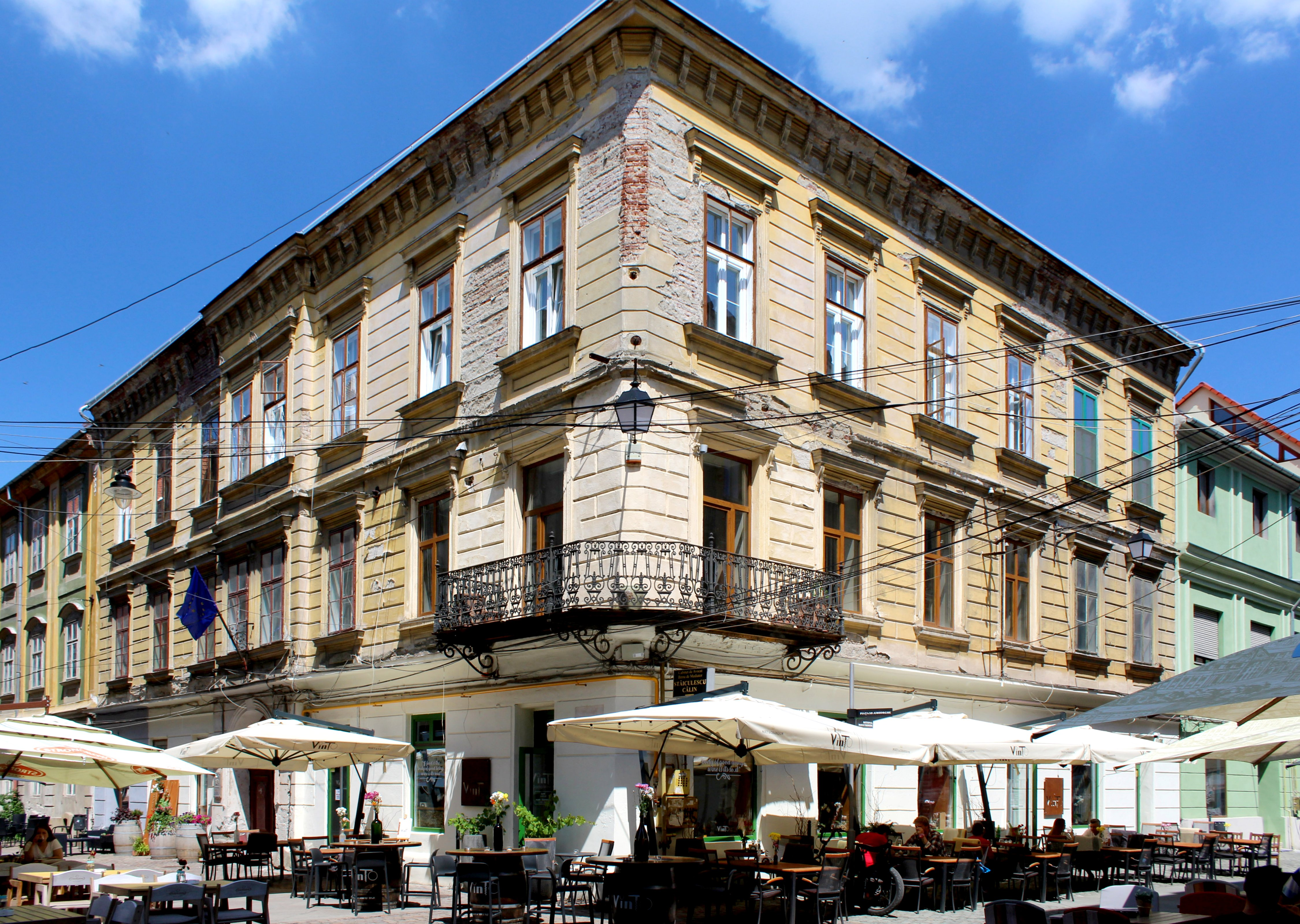 House, Florimund Mercy Str. no. 4, Timisoara, Romania, built 19th century